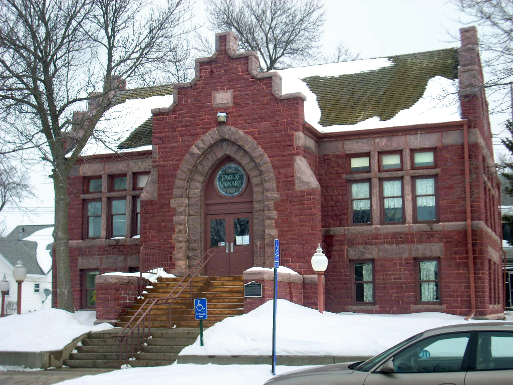 Pipestone Public Library, Pipestone Minnesota. A Carnegie library listed on the National Register of Historic Places. Currently used as senior citizens center.